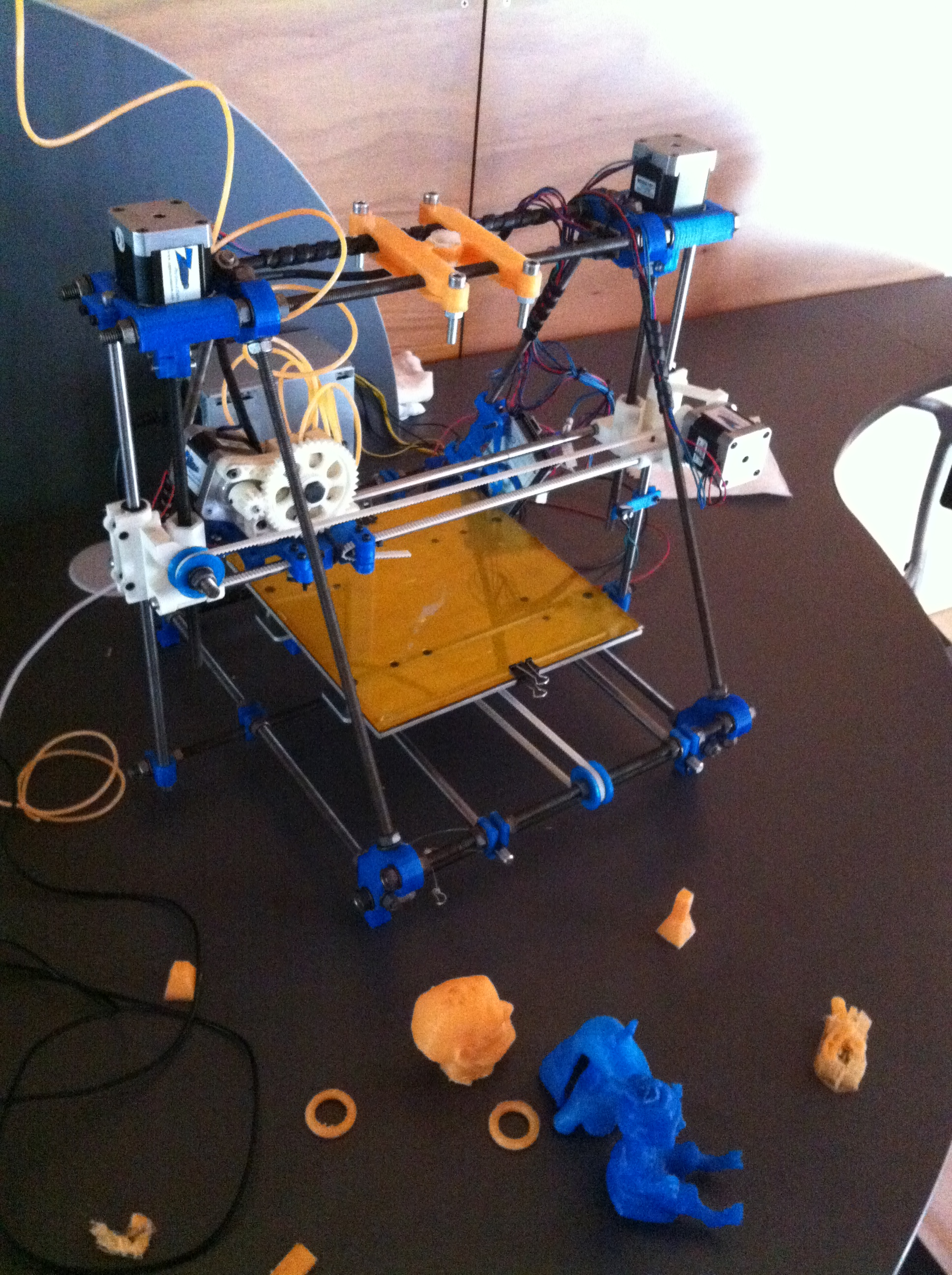 Citilab in Cornellà, Catalonia